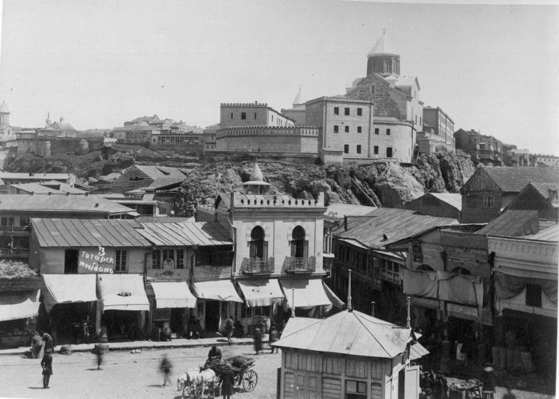 Metekhi fortress, Tbilisi. Photo by A. Roinashvili (Roinov). 1890s